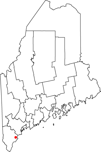 Map of the state of Maine with County Outlines, highlighting the city of Biddeford.